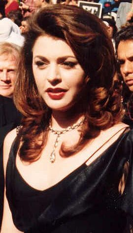 Jane Leeves on the red carpet at the Emmys 9/11/94